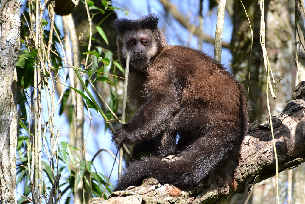 Black capuchin (Sapajus nigritus) - Southern form - Parque Nacional Iguazú, Argentina.